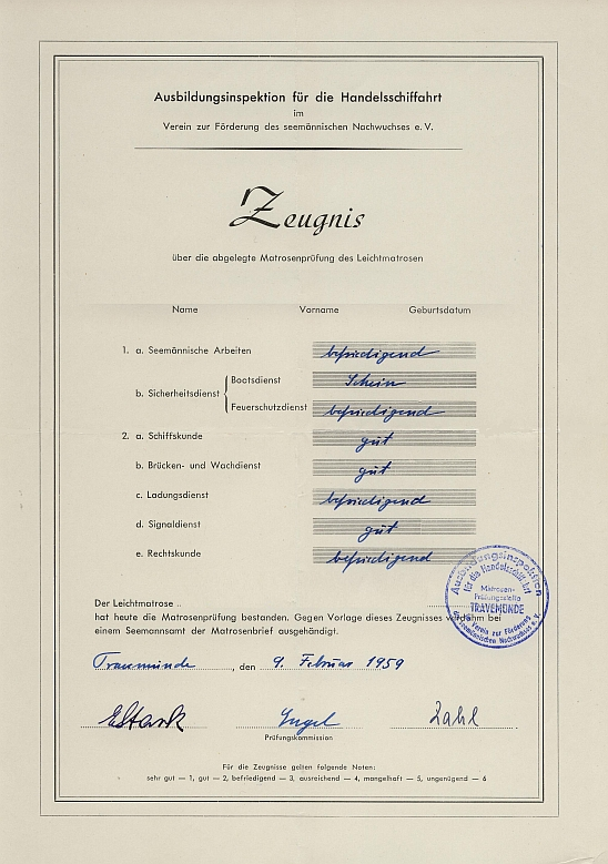 A/B diploma of the sailors school Travemünde-Priwall from 09-02-59